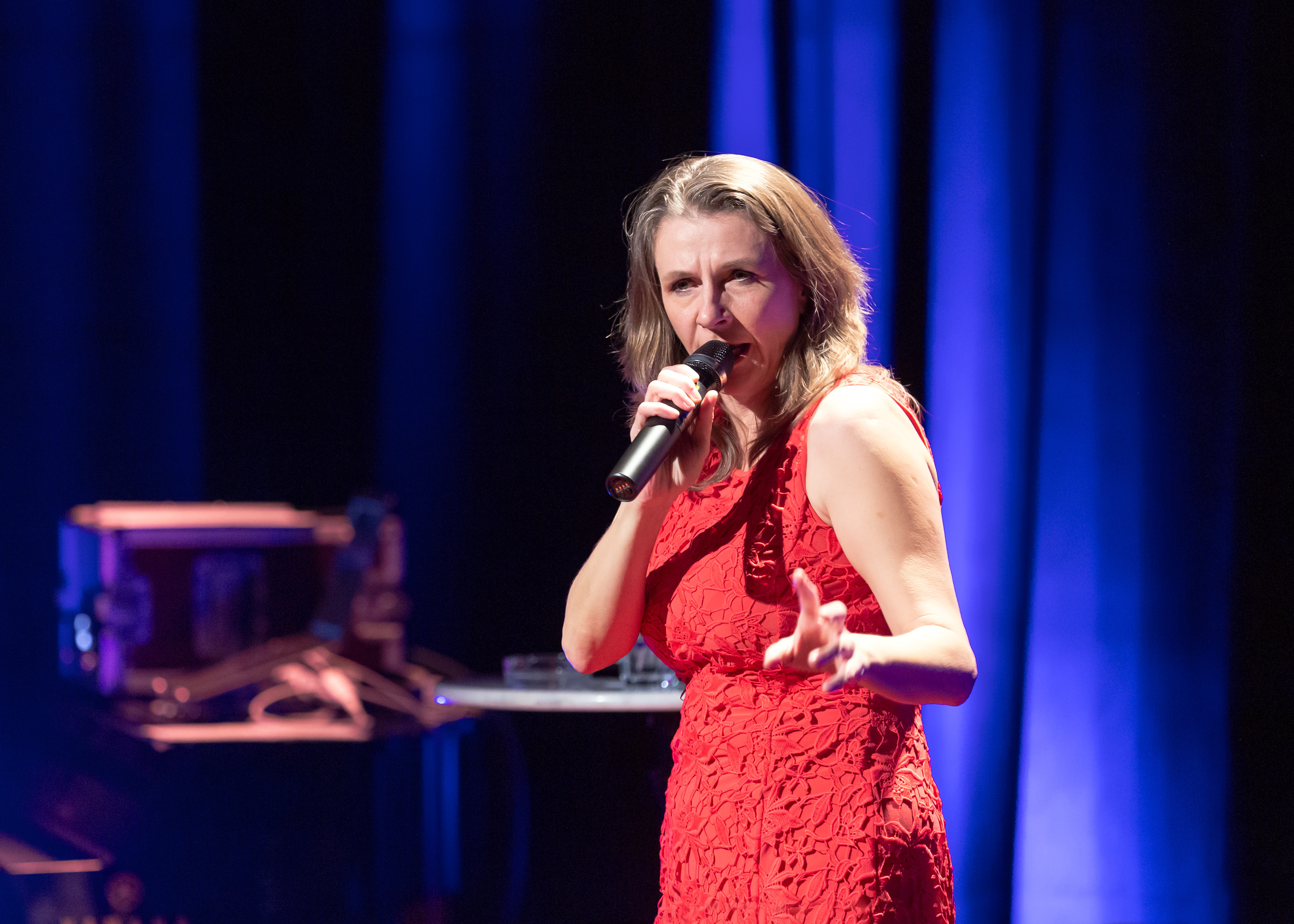 The Slow Club – Epilog, in memoriam Hansi Lang. A concert program with music by Lang and The Slow Club performed by: Thomas Rabitsch (keys, arr), Wolfgang Schlögl (el) and Andy Bartosh (git) with Madita, Birgit Denk, Tini Kainrath, Johannes Krisch and Roman Gregory (voc); Rabenhof Theater in Vienna, Austria.